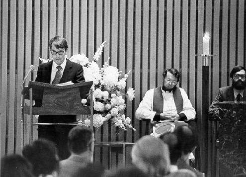 MJC giving lecture